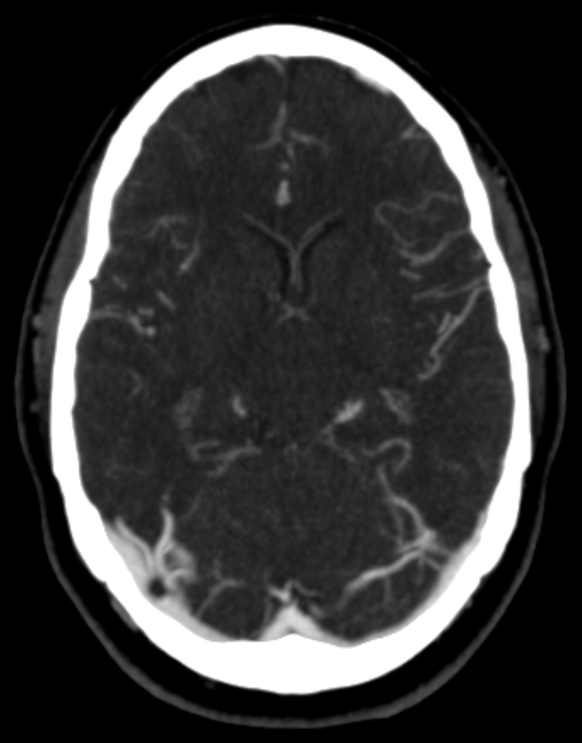 editVenous-phase CT angiography of the head of a 41 year old woman who had cerebral venous sinus thrombosis on previous CT angiographies, but with no remaining thrombosis on the current exam. It shows a pacchionian body in the right transverse sinus.